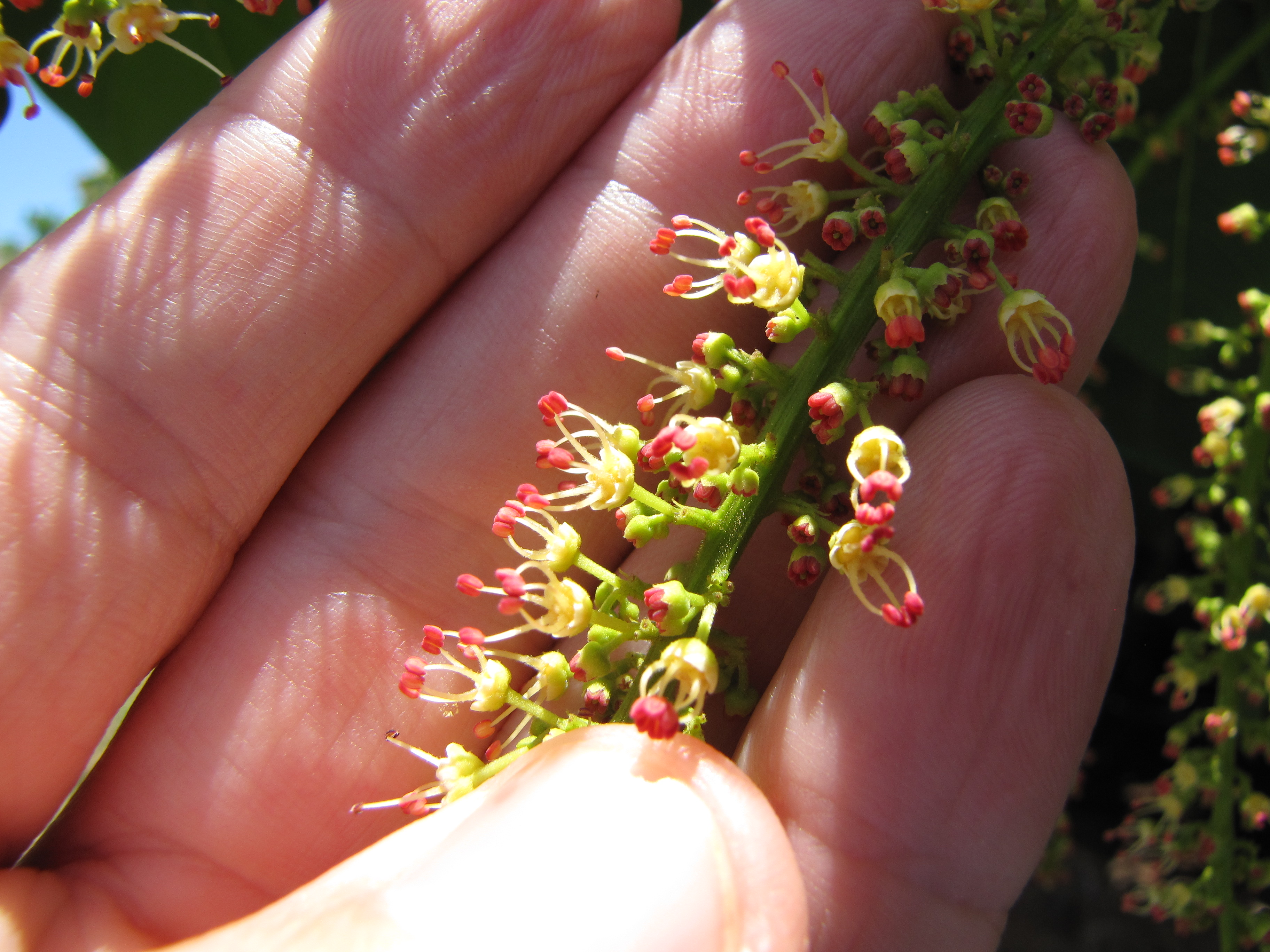 Pometia pinnata (Fijian longan, island lychee, langsir) Flowers at Napili, Maui, Hawaii. July 14, 2009 #090714-2723 Image Use Policy